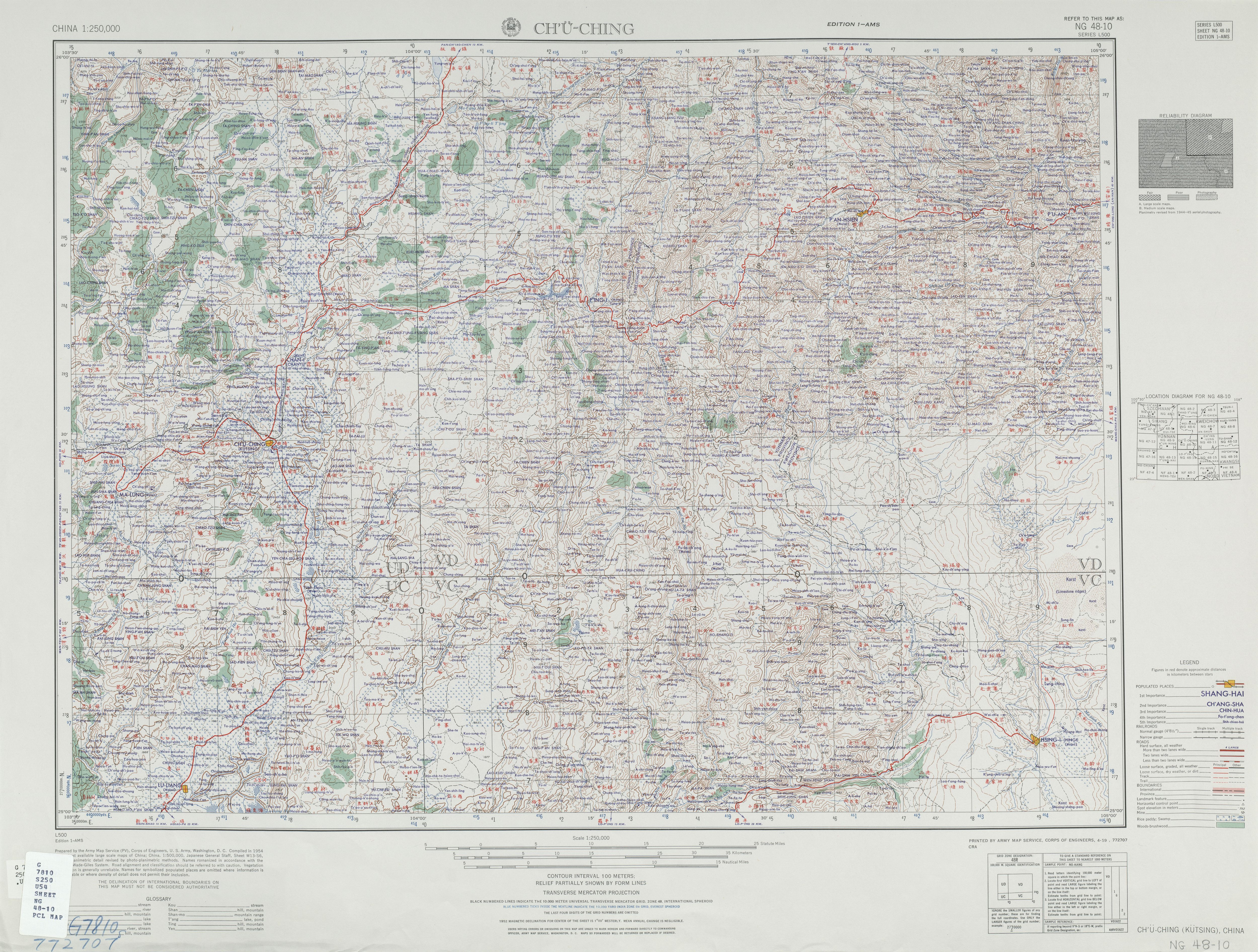 China AMS Topographic Maps